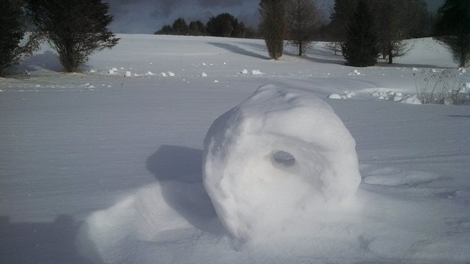 January 27, 2014 these were formed over night during high winds in western Pennsylvania. These pictures were taken in Venus, Pa. USA